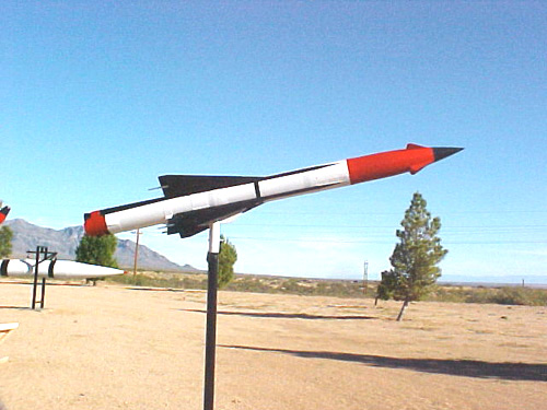 The Roland missile is an anti-aircraft missile manufactured by the US under license from French and German developers.